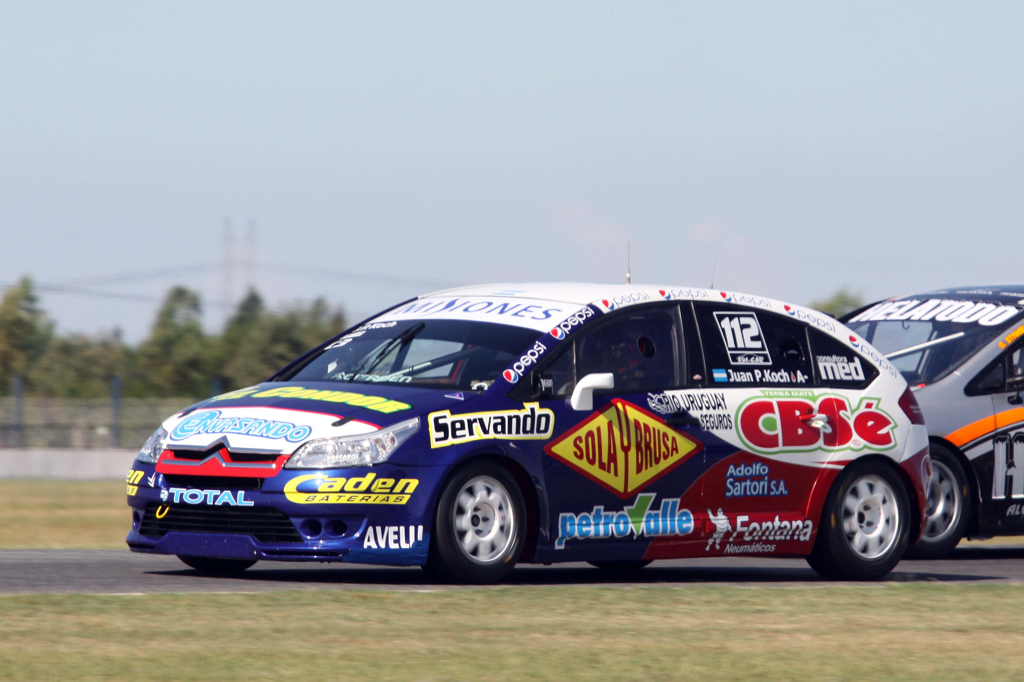 Juan Pablo "Juampy" Koch, racecar driver from Leandro N. Alem, Misiones, Argentina.